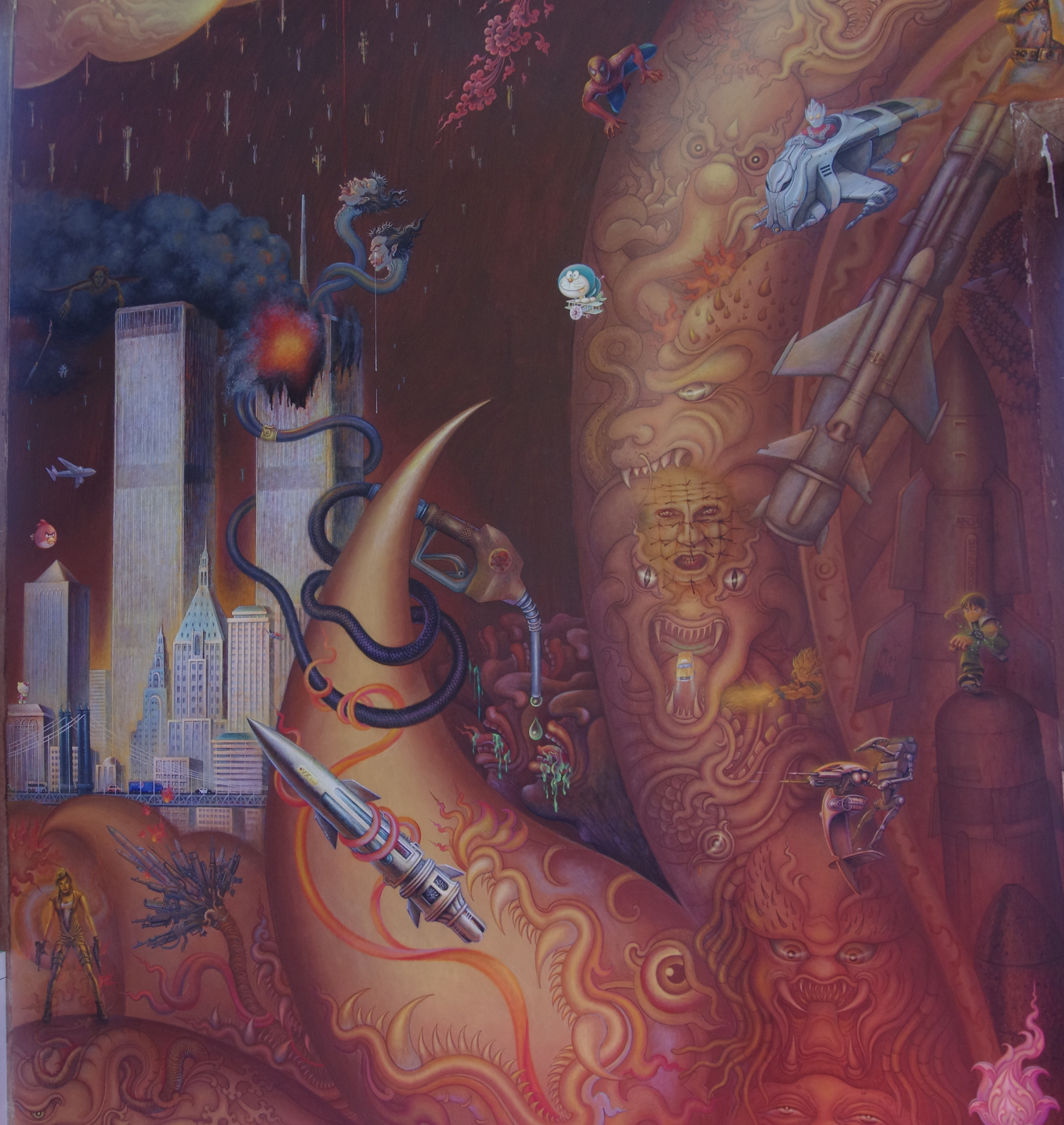 Wall painting in Wat Rong Khun, Chiang Rai, Thailand